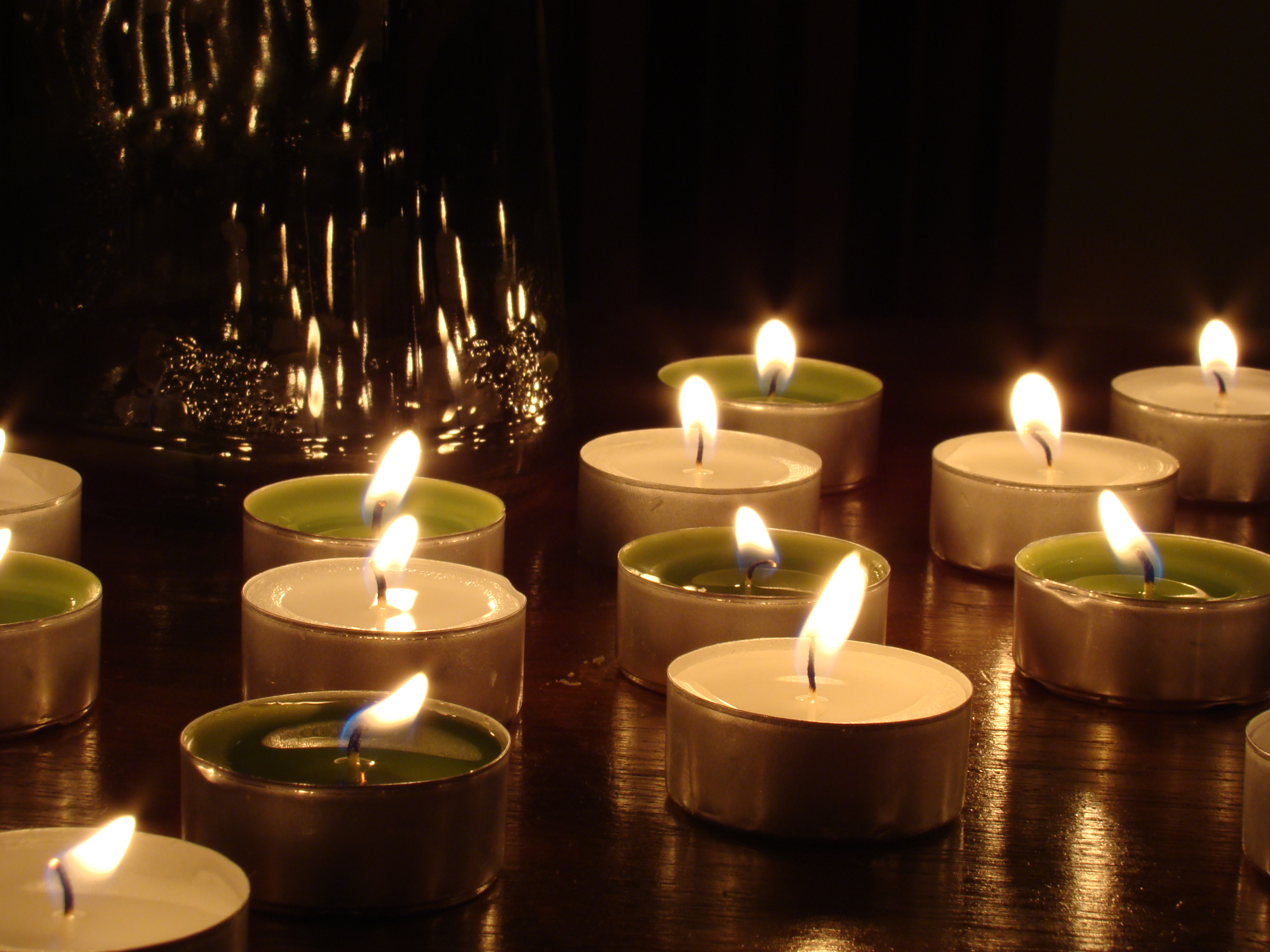 This photo was made in Stargard Szczeciński